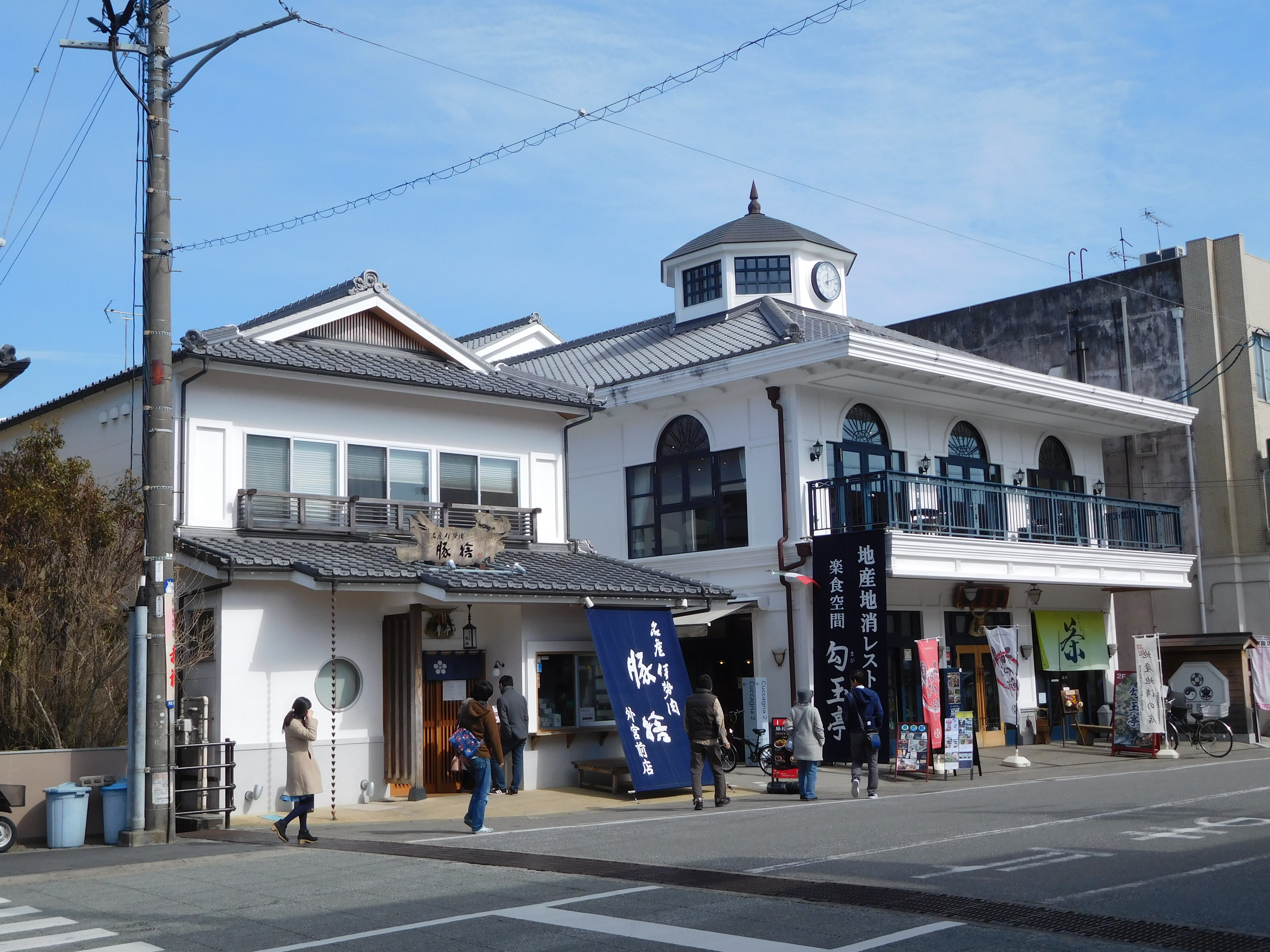 This is Geku-Mae shop of Butasute in Ise, Mie, Japan.